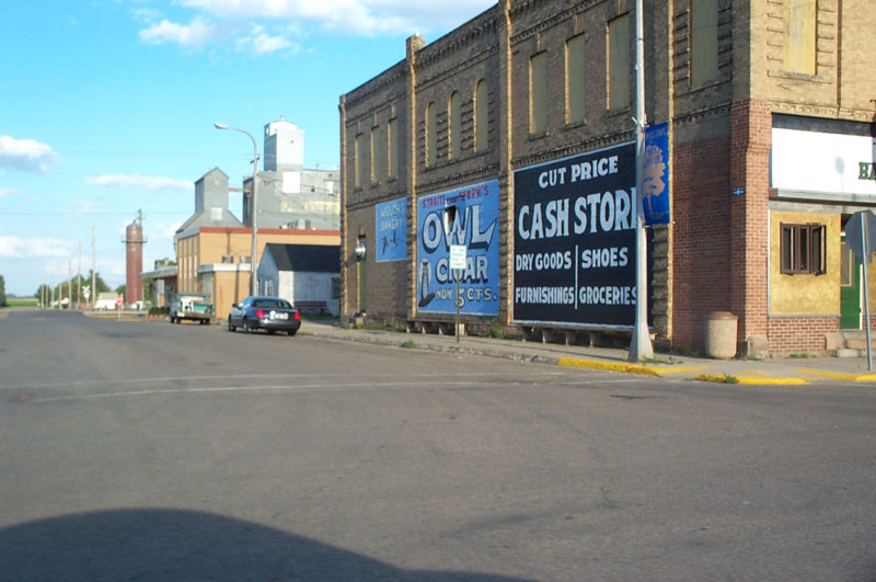 Park River, North Dakota. From .